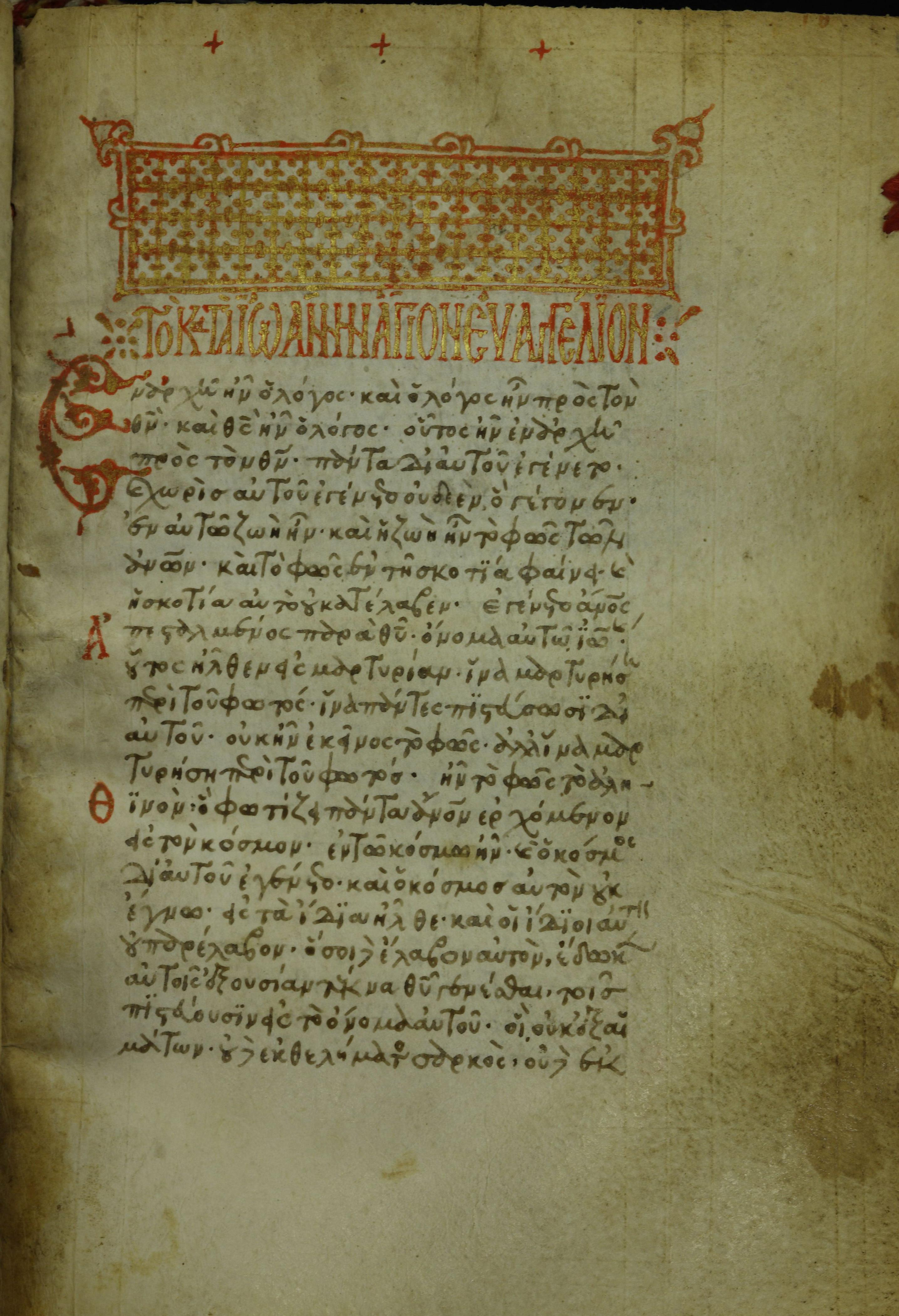 Folio 115 recto of the codex with the beginning of the Gospel of John